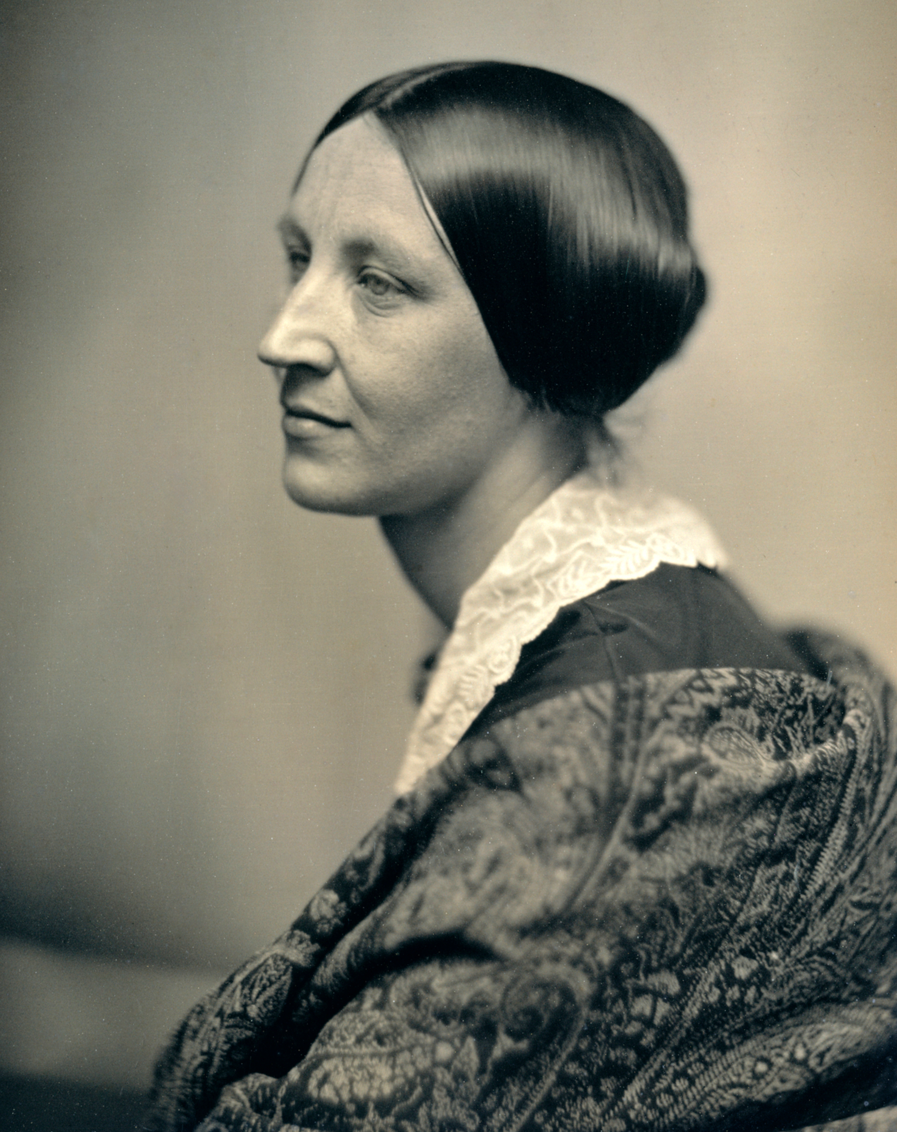 Retouched daguerreotype of unidentified woman. The sitter in this daguerreotype was previously incorrectly identified by the Metropolitan Museum of Art as Susan B. Anthony.